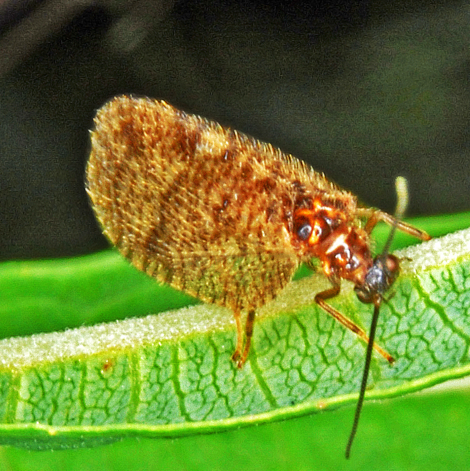 Megalomus tortricoides (cf.). La Thuile, Aosta, Italy